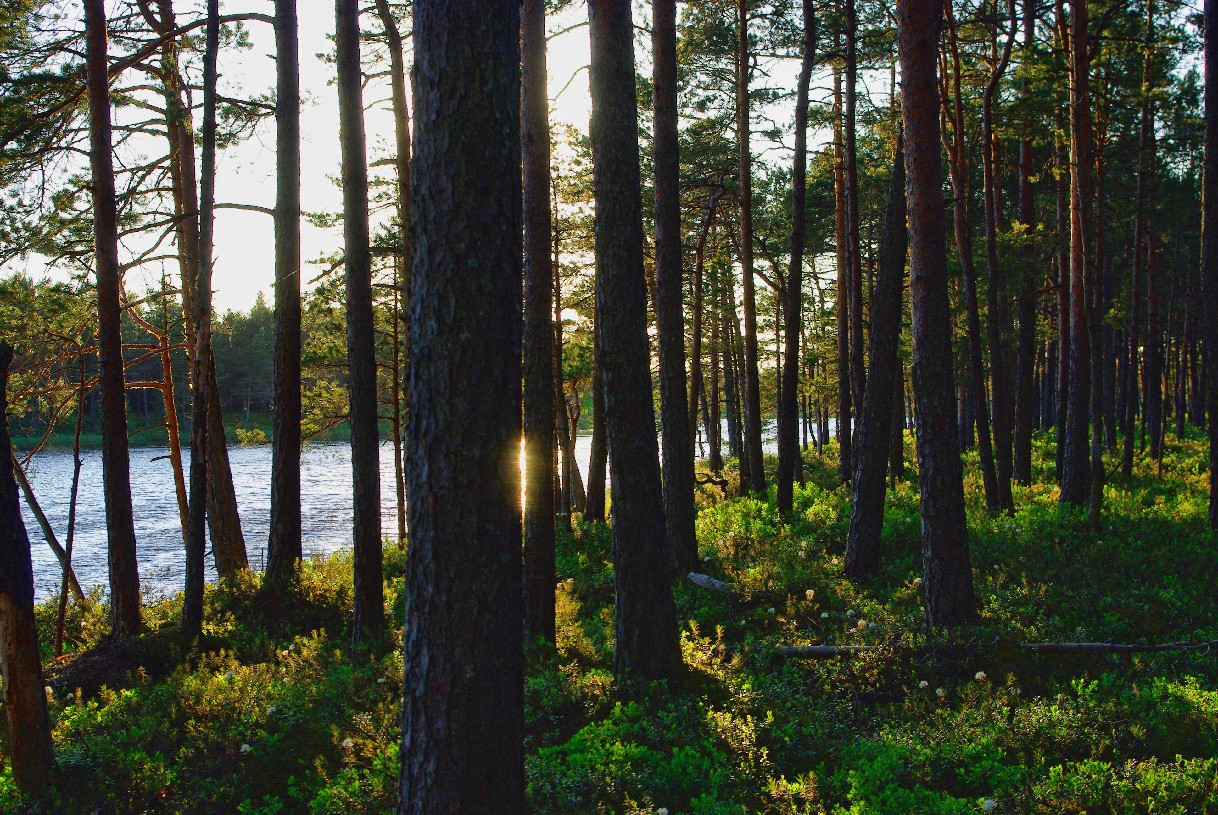 Ulvi bog lake